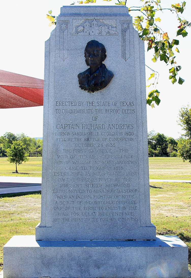 Richard Andrews monument in Concepcion Park, San Antonio, Texas, United States.